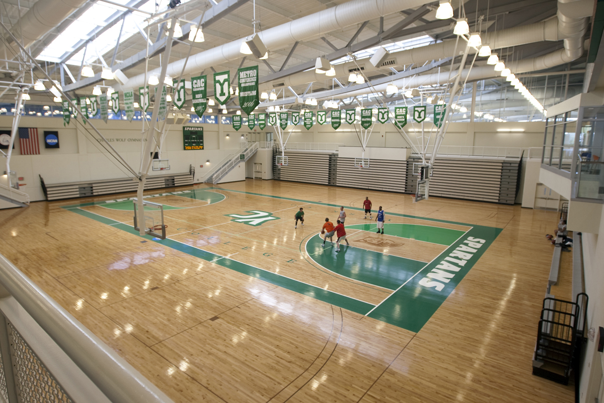 The primary gym space in York College of Pennsylvania's Grumbacher Sport and Fitness Center. The gymnasium hosts basketball, volleyball, wrestling and other events.